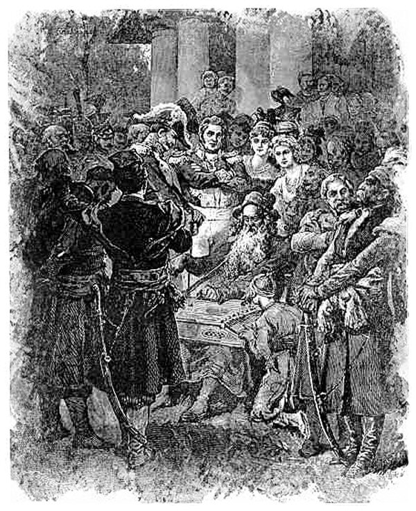 Illustration of Pan Tadeusz, Book 12